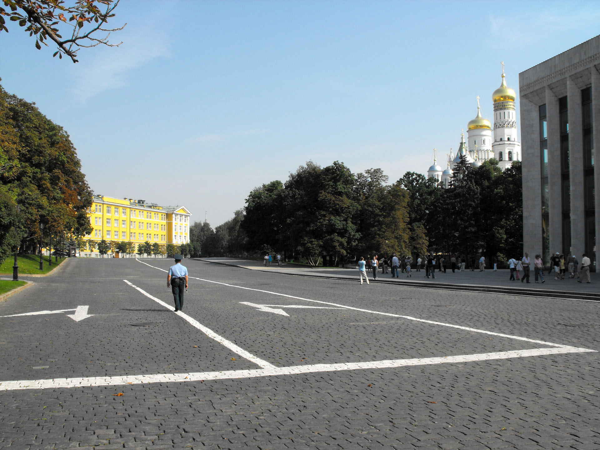 The scenery of Kremlin, Moscow.